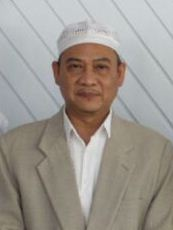 Portrait of Abuya Uci Turtusi, leader of the Pondok Pesantren Salafiyah Al-Istiqlaliyah in Cilongok, Pasar Kemis, Tangerang Regency.